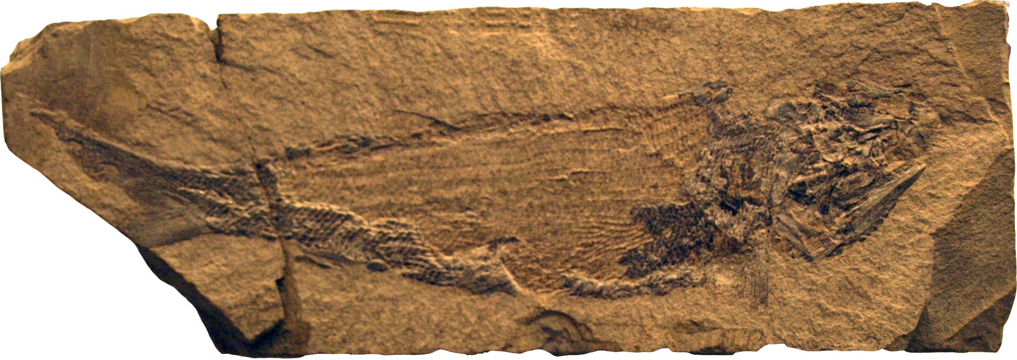 Palaeoniscus freieslebenensis, an early fish from the Upper Permian. Found in marl slate at Ferry Hill, south of Durham City. Background knocked out for clarity.